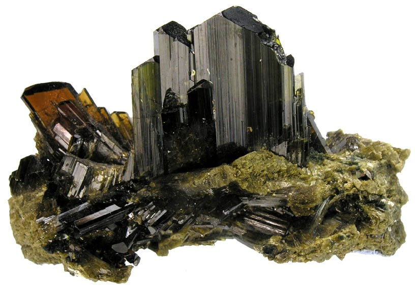 Epidote Locality: Tormiq valley (Tormic; Tormik; Tormig; Turmiq), Haramosh Mts., Skardu District, Baltistan, Northern Areas, Pakistan (Locality at ) Size: 5.3 x 3.4 x 1.9 cm. Richard Kosnar was a serious collector of Alpine and Alpine-type minerals from around the world. Epidote was one of his favorite species from these Alpine clefts. It has become increasingly more difficult to obtain top specimens from this locality, especially such fine quality specimens like this one. Epidote is one of the most well known of all the Alpine cleft species in the world, and some of the finest Epidote specimens in the world have been coming out of Pakistan in recent years. These specimens are seemingly identical to the classic Alpine specimens from Europe, and in certain instances, have surpassed the European specimens for quality and gemminess. This particular specimen is a superb, multi-terminated, sharp, and lustrous; gem/gemmy, multi-color crystal group with very distinct pleochroism, though there are a few contacts, which is not uncommon for these specimens. Ex. Kosnar Collection.